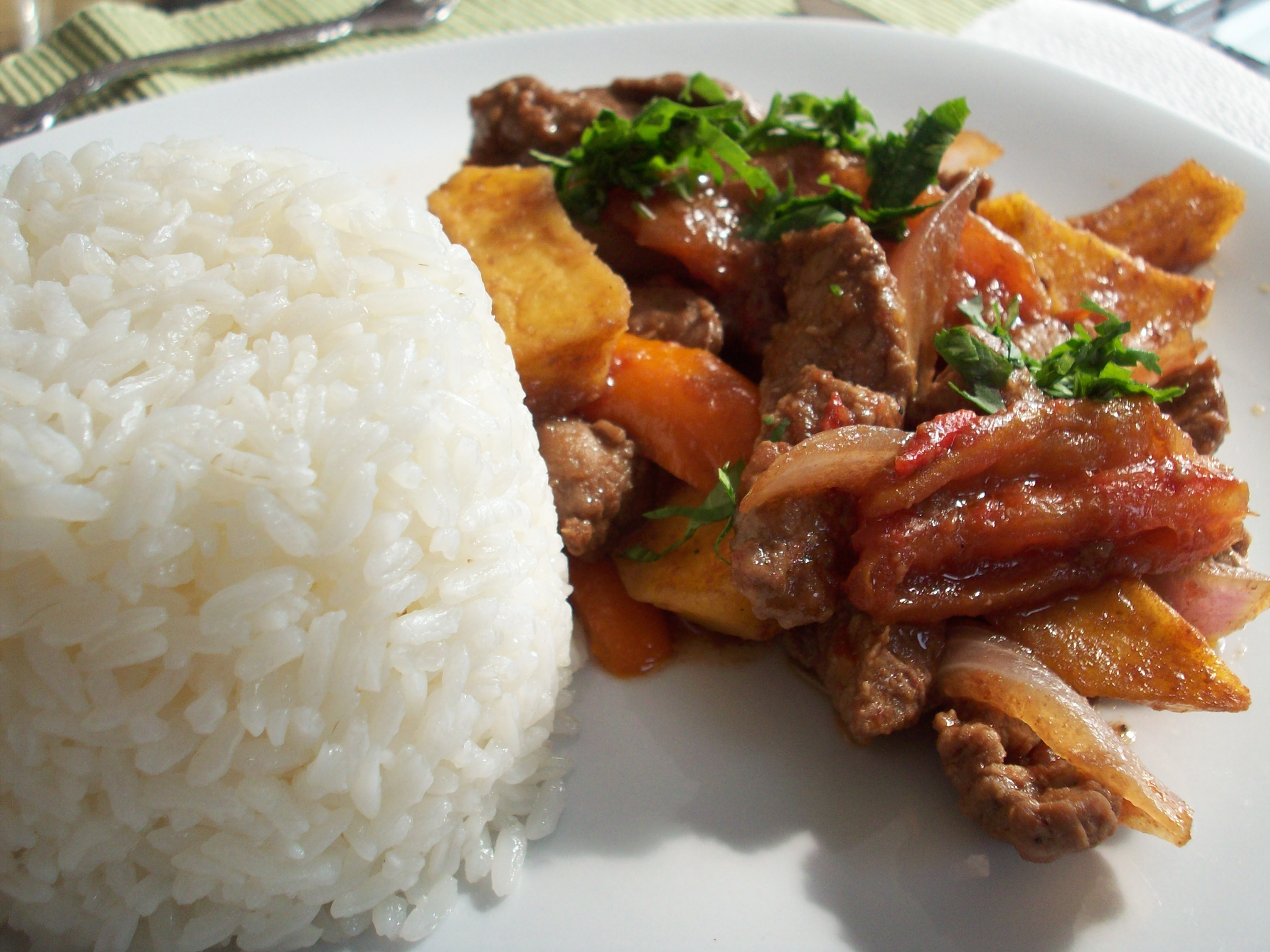 Lomo Saltado